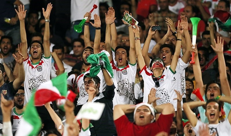 2018 FIFA World Cup qualification – AFC Third Round, Iran-Qatar